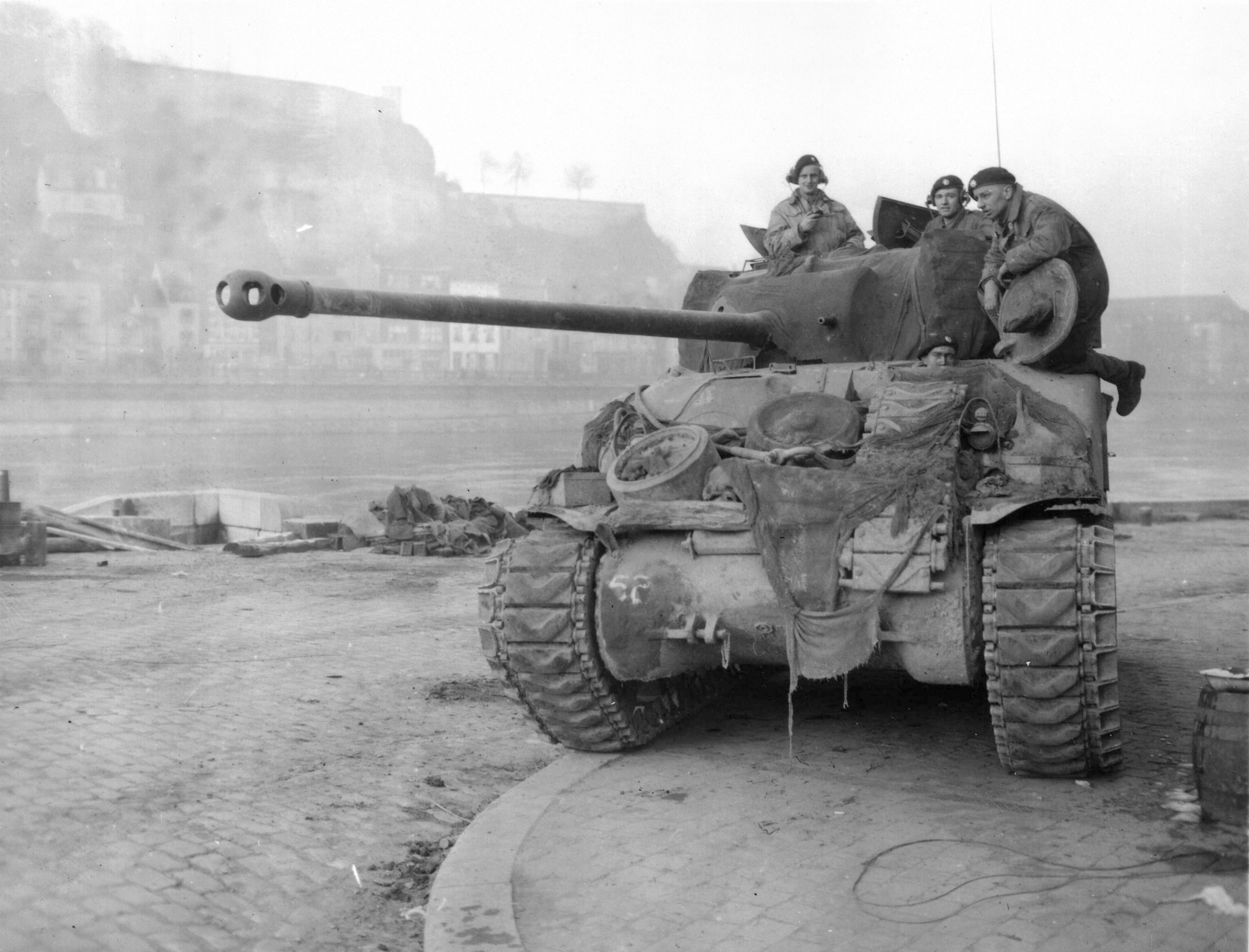 BRITISH TANK PATROLLING THE MEUSE AT NAMUR